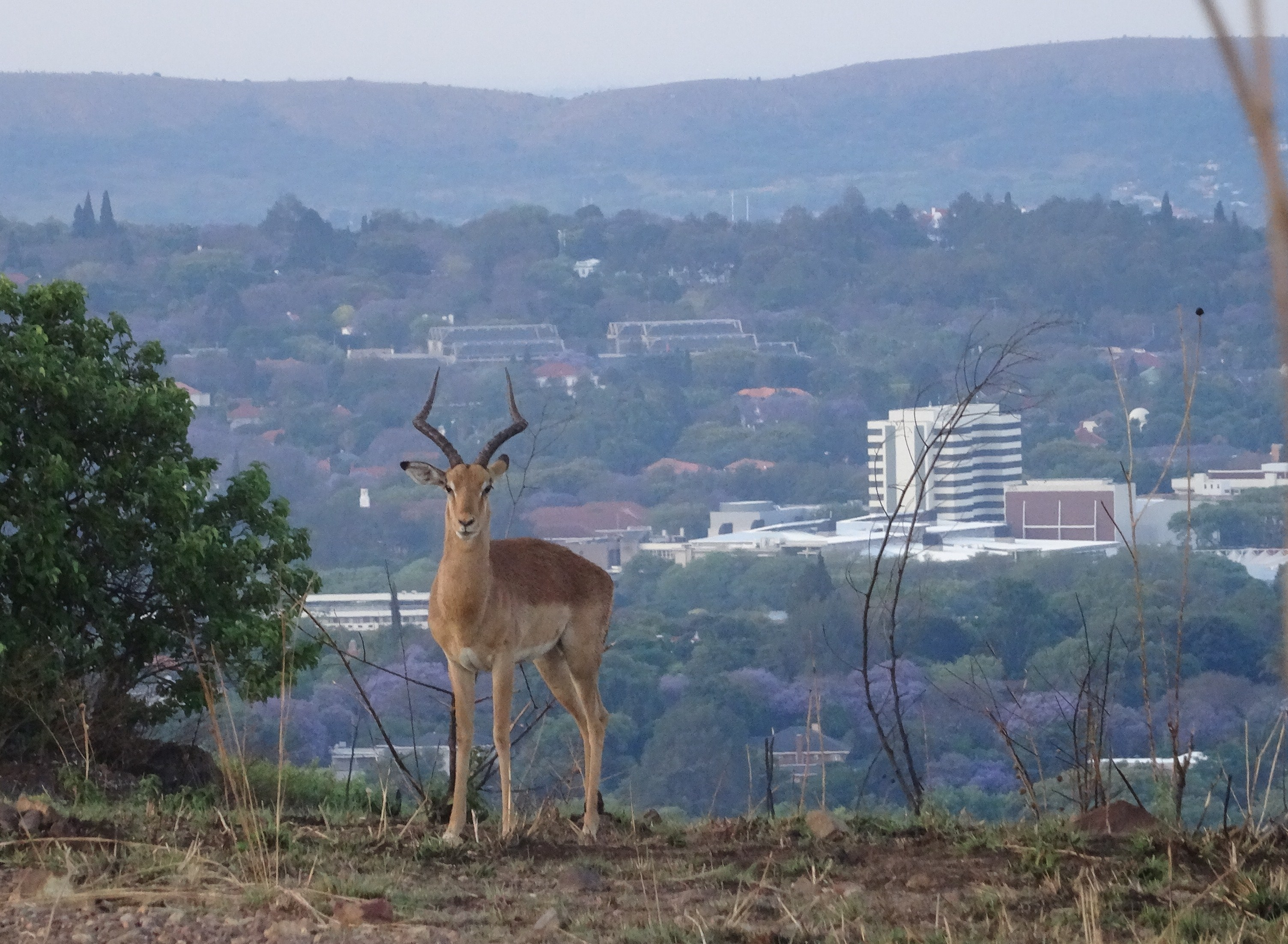 Johan Rissik Drive - Pretoria.